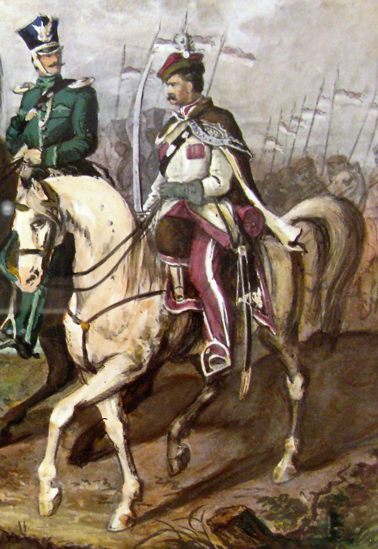 2nd Regiment of Krakusi à cheval of Polish Army of November Uprising